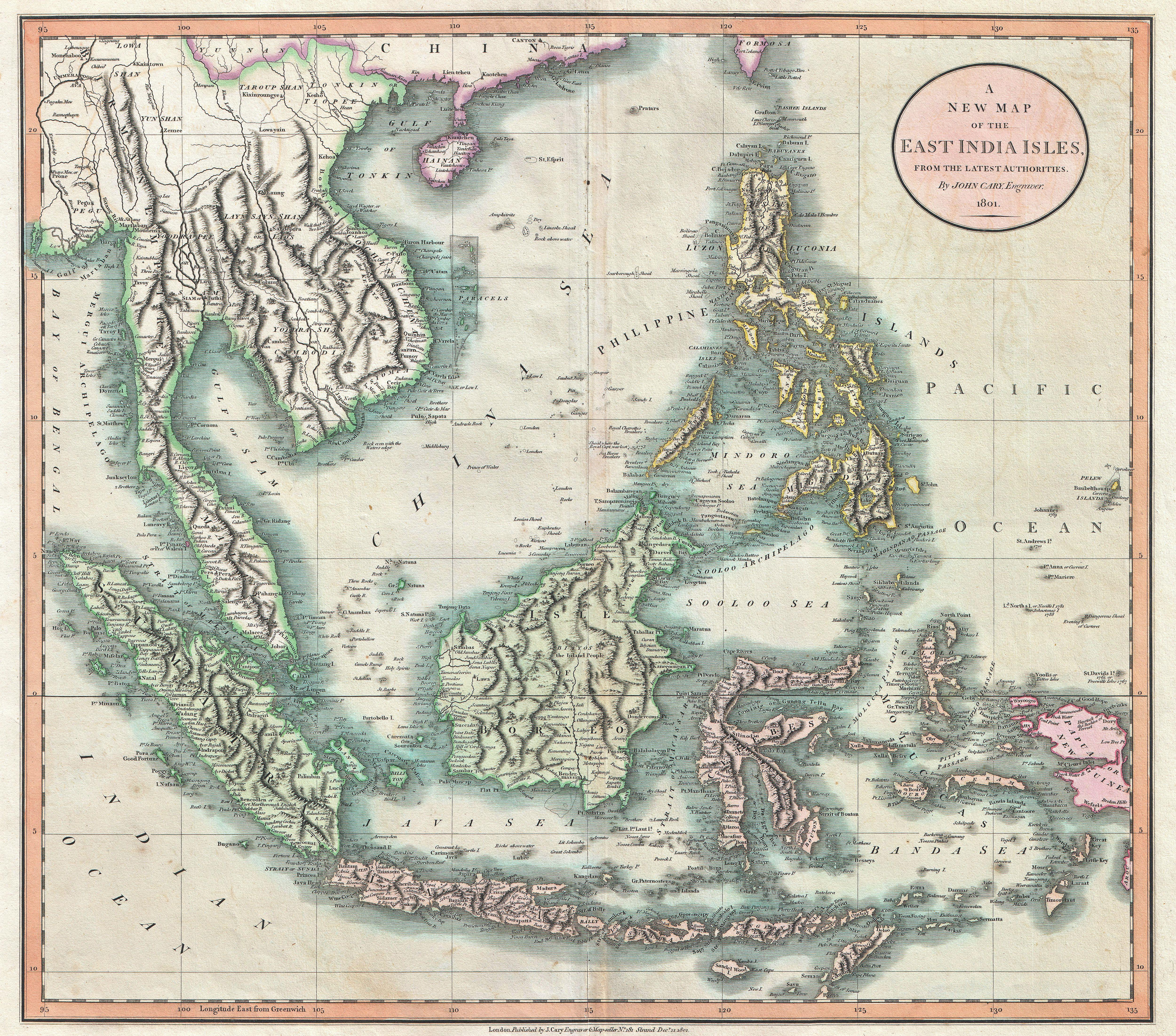 An exceptionally beautiful example of John Cary’s important 1801 Map of the East Indies. Covers all of Southeast Asia and the Malay Peninsula, including Singapore, as well as the Philippines, Borneo, Sumatra, java, the Celebes, and parts of Papua New Guinea. One of the few maps of this region to label the volcanic island of Krakatoa between Java and Sumatra, which famously erupted, obliterating the entire island in 1883. Notes the Straits of Singapore at the southern tip of the Malay Peninsula. Offers wonderful detail regarding the mountain ranges of the region. Also shows some off shore details, especially the shoals near Borneo and the Philippines. In Southeast Asia this map notes the kingdoms of Siam (Thailand), Tonkin (North Vietnam), Cochin (South Vietnam), Cambodia, and Pegu (Burma). Includes part of the Island of Formosa. All in all, one of the most interesting and attractive atlas maps of the East Indies to appear in first years of the 19th century. Prepared in 1801 by John Cary for issue in his magnificent 1808 New Universal Atlas .